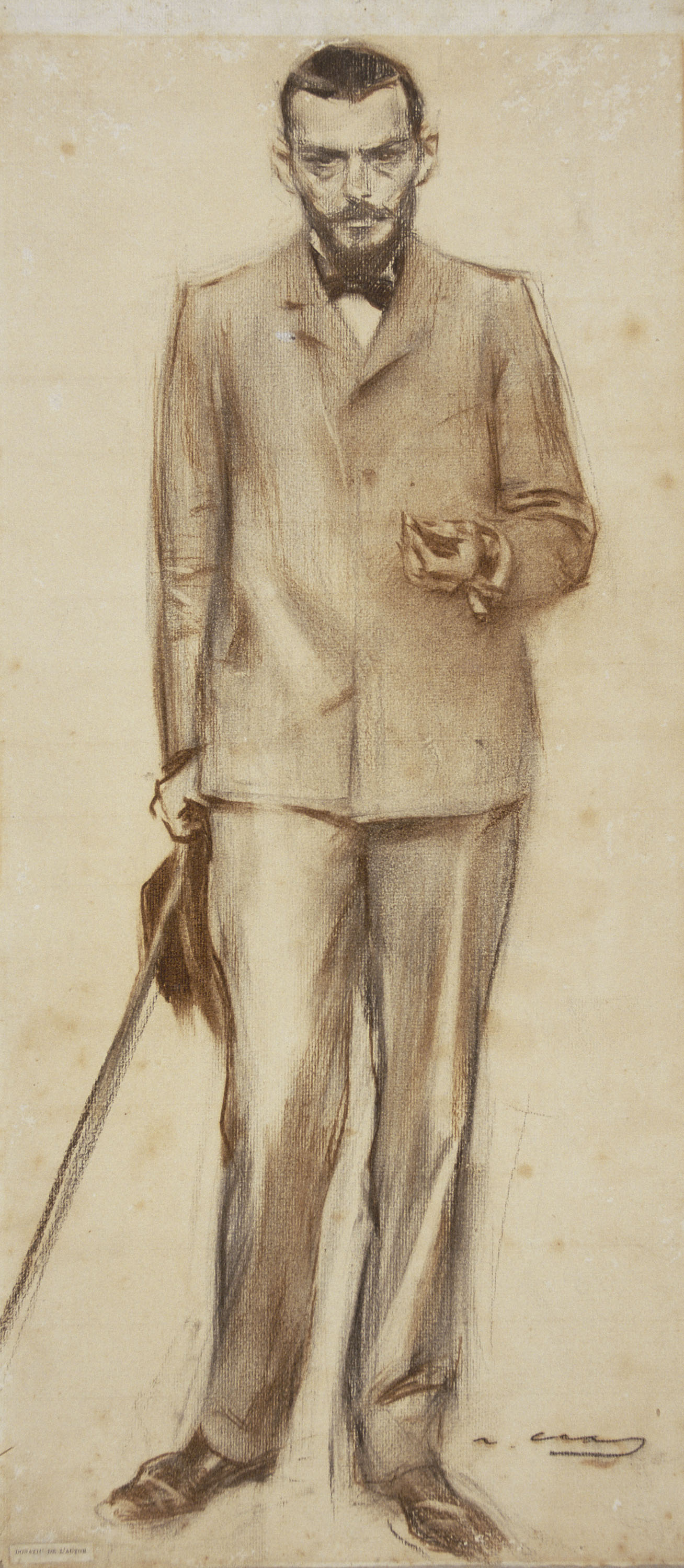 Portrait by Ramon Casas conserved at MNAC in Barcelona.